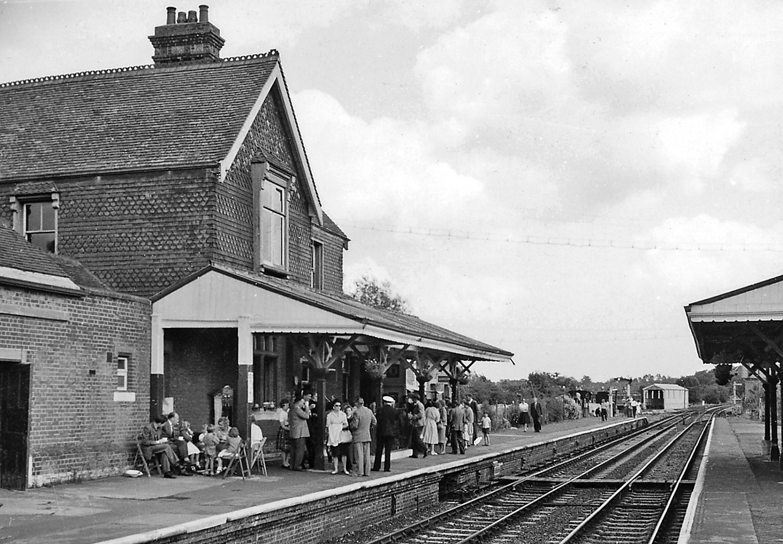 Sheffield Park station in early days of Bluebell Railway. View southward, towards Lewes before 17/3/58 when ex-LB&SCR line from East Grinstead was finally closed: it was reopened by the Bluebell Railway on 7/8/60 and by June 1961 (date of photograph) trains were being run to Horsted Keynes. Note the absence of facilities for locomotives and stock which were developed later on the far side.